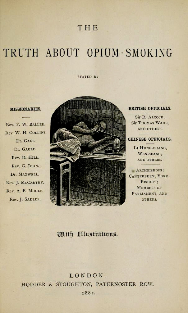 Book from the Anti-Opium league